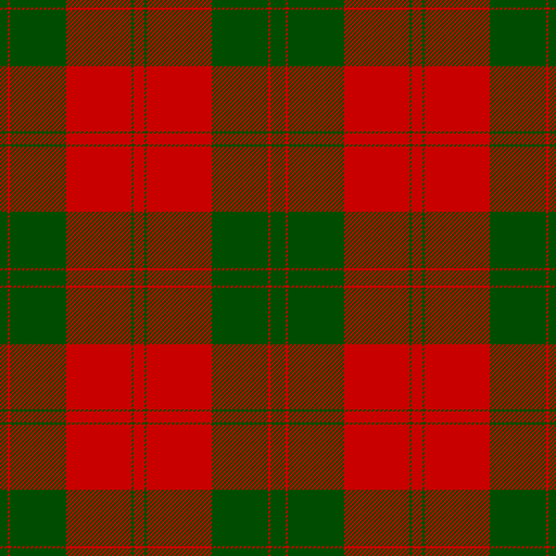 Erskine tartan, as published in the Vestiarium Scoticum. Modern thread count: G14 R2 G52 R60 G2 R10.